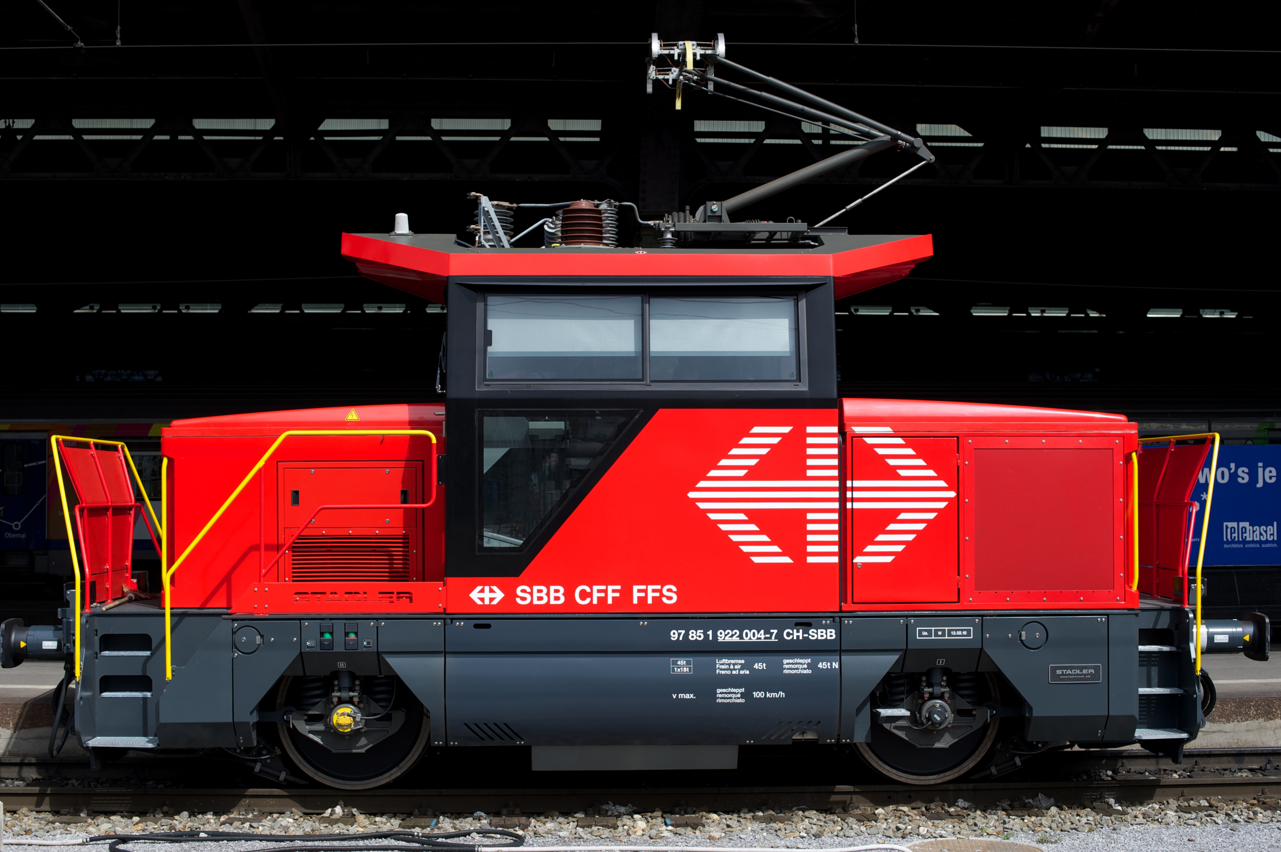 Brand new shunter Ee 922 004-7 at Basel SBB.